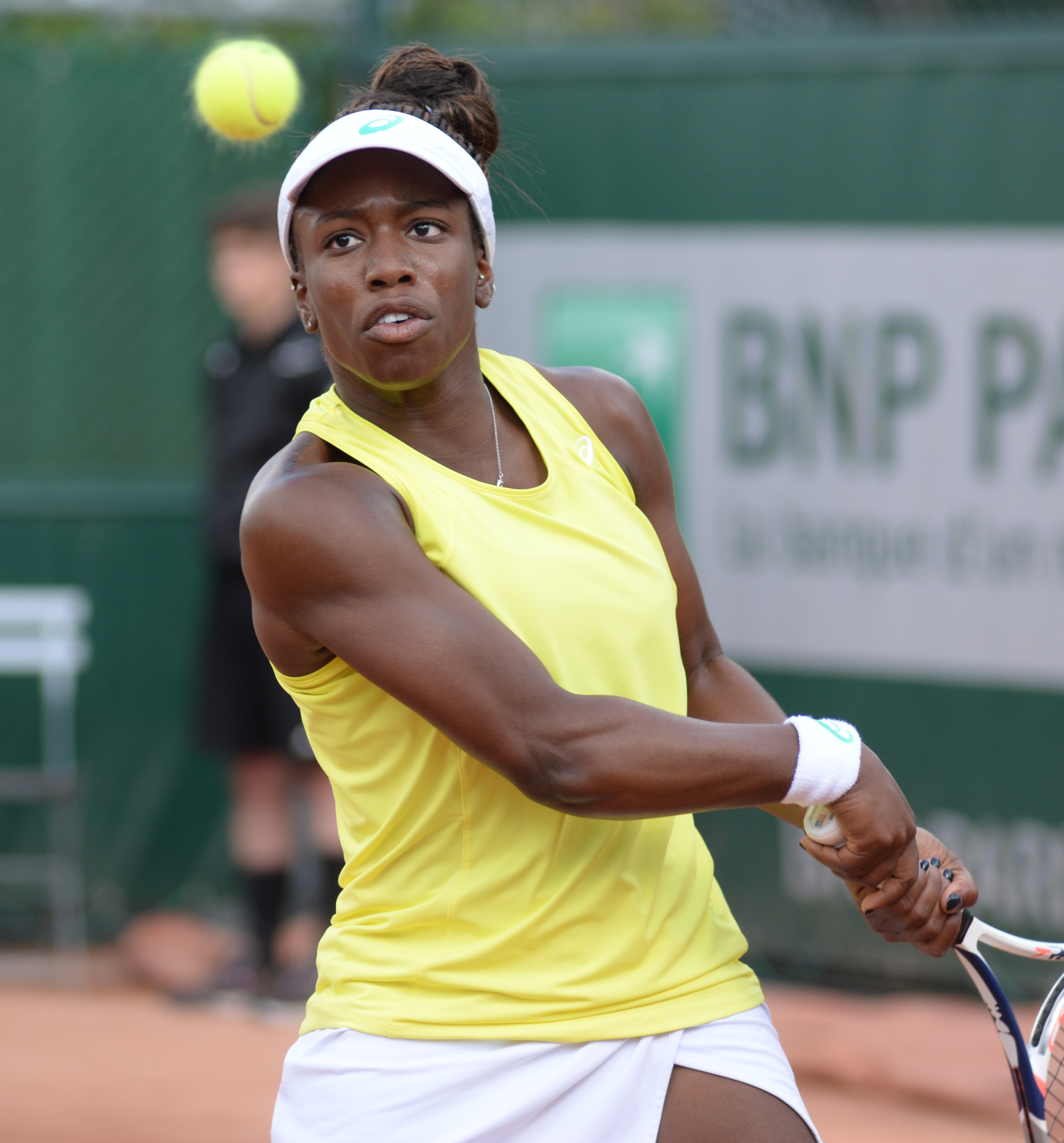 Sachia Vickery at 2015 Roland Garros